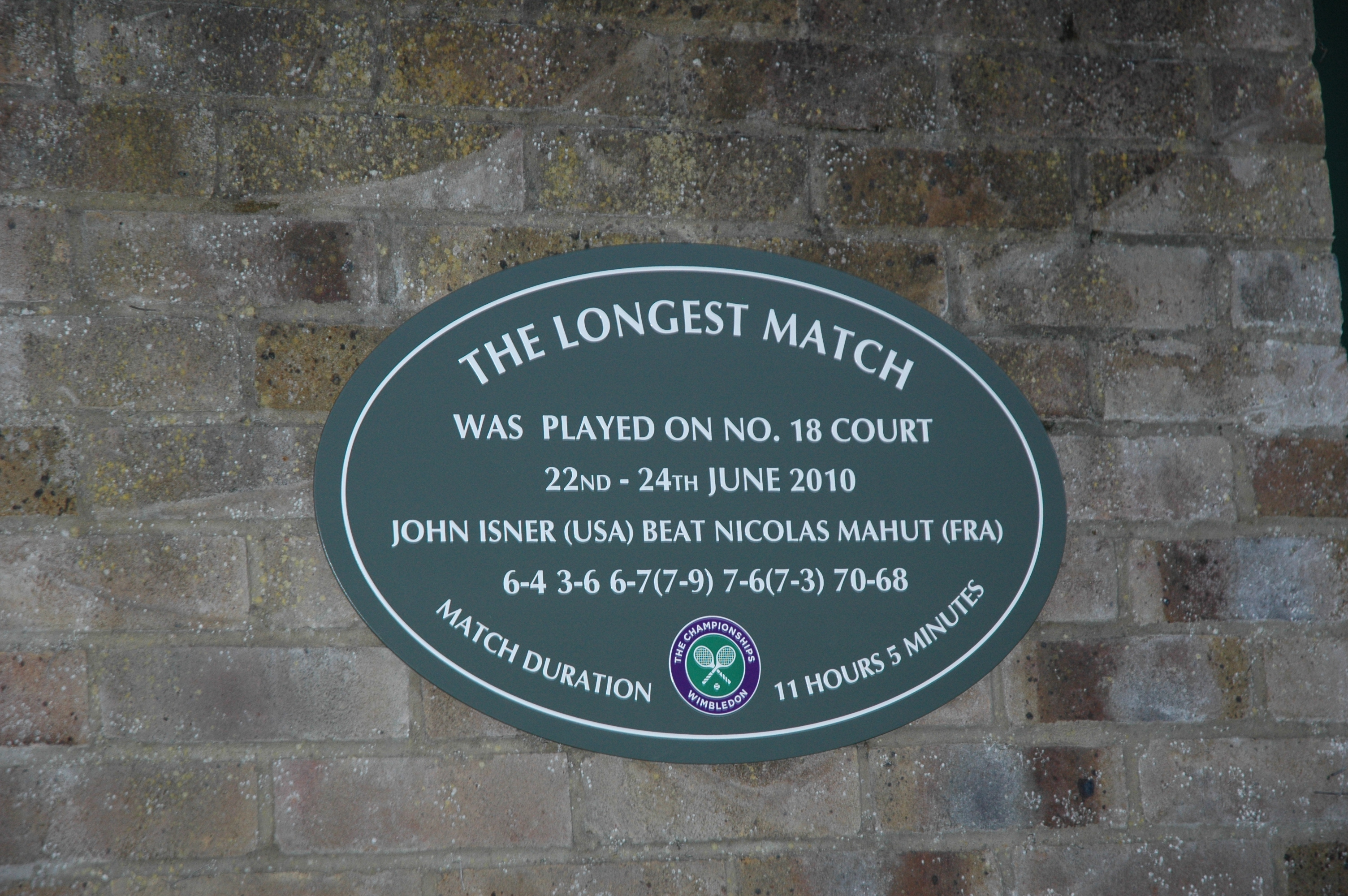 The longest match ever played at Wimbledon